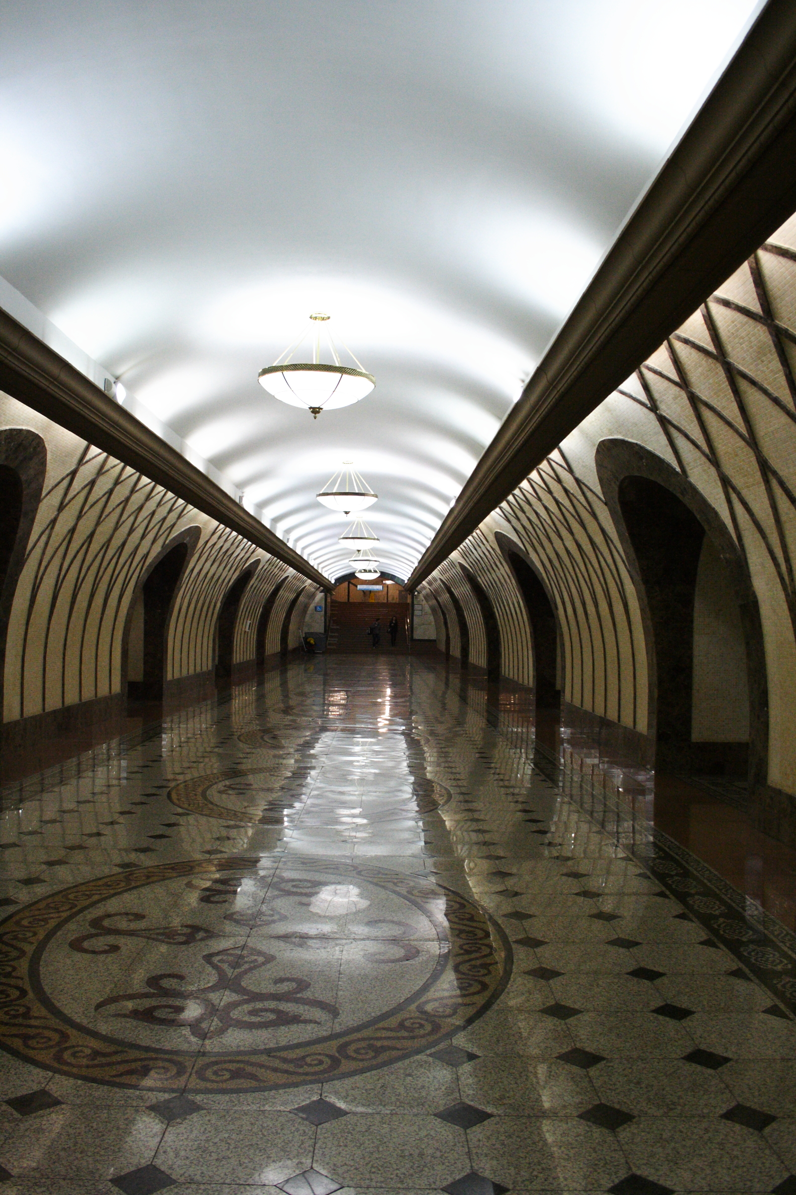 Almaty Metro